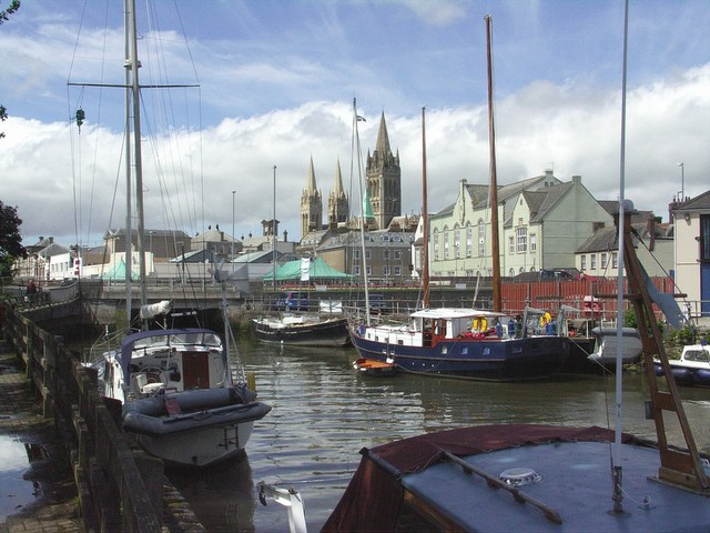 Truro from the River This view is from the riverside walk, looking towards the cathedral in the centre of the city.